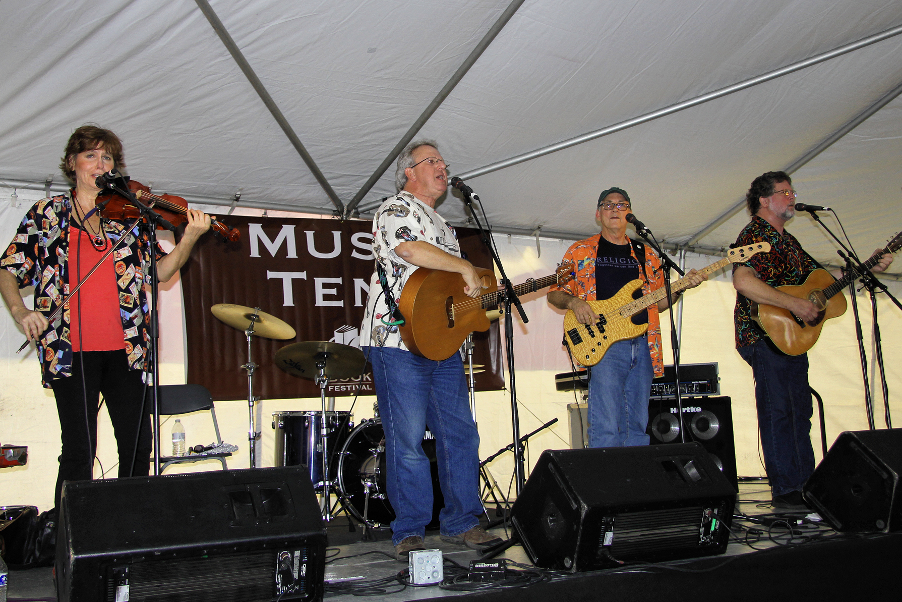 The Austin Lounge Lizards at the 2013 Texas Book Festival in Austin, Texas, United States.